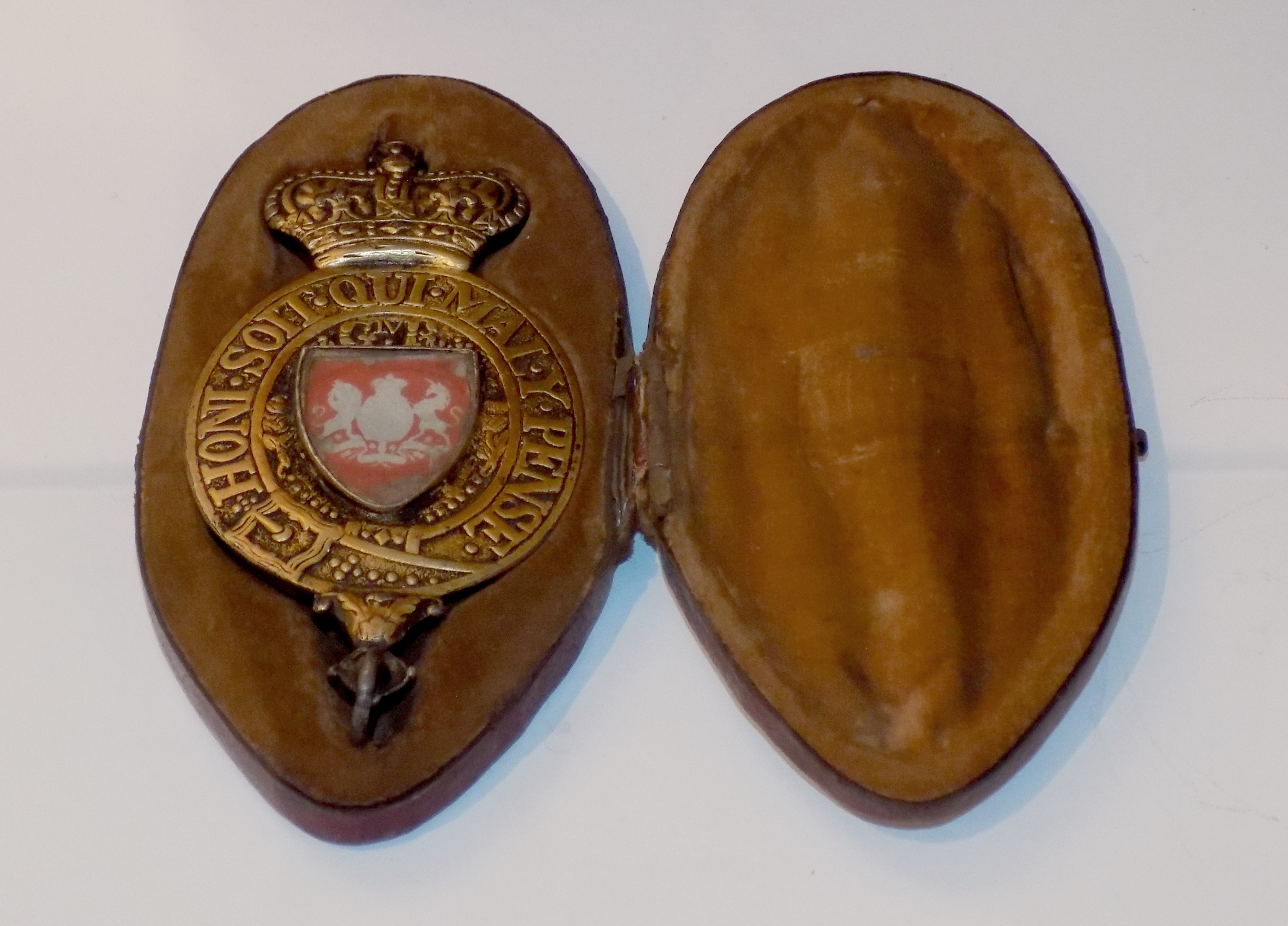 Rista Prendić, Serbian princely tatar (postman) since 1835 to 1892 (PTT Museum in Belgrade) - a badge of English diplomatic courier